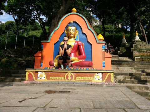 MonkeysTemple